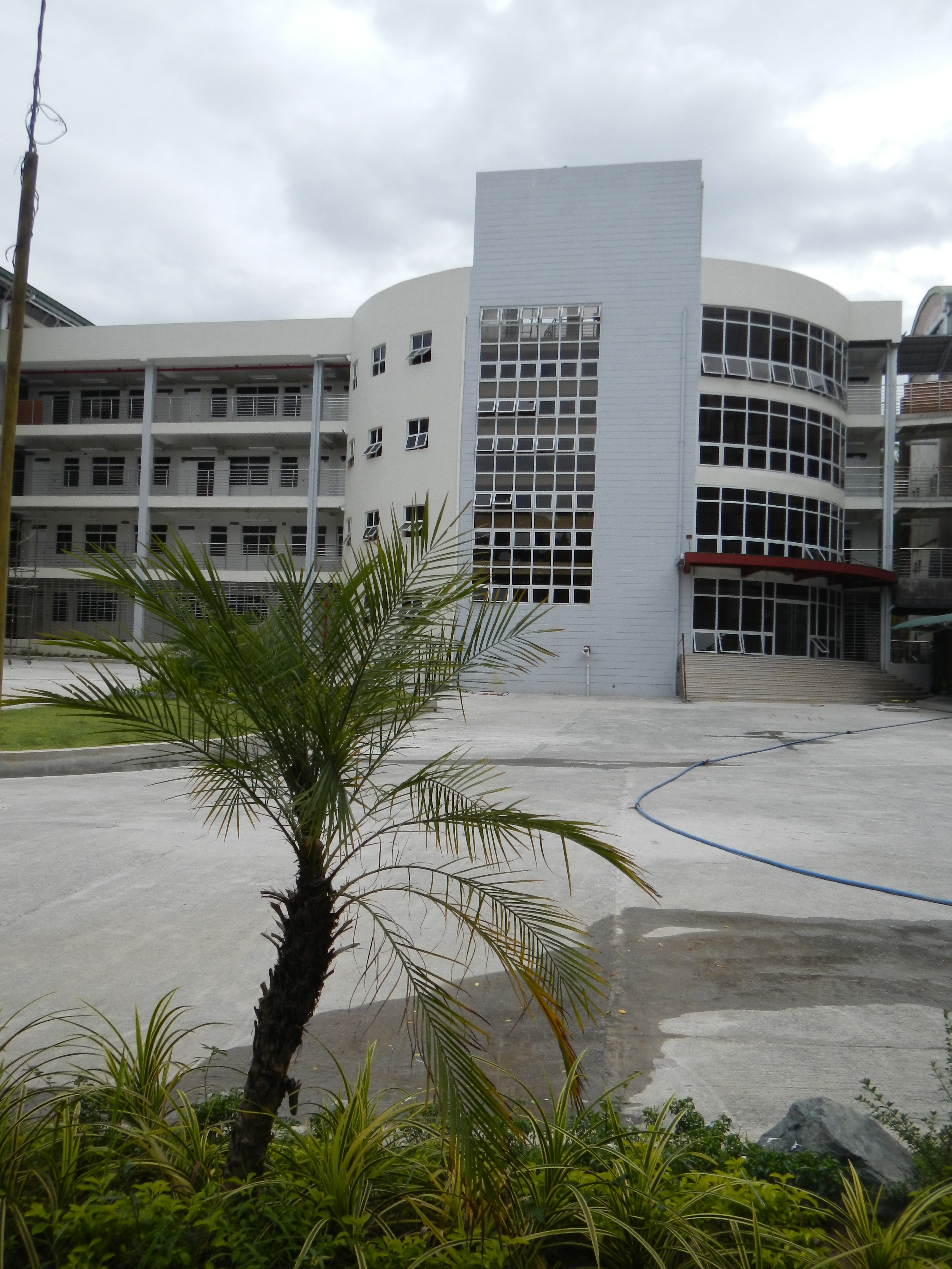 UP Diliman Electrical and Electronics Engineering Institute[1] Velasquez Street [2] The Electrical and Electronics Engineering Institute (formerly Department of Electrical and Electronics Engineering) of the University of the Philippines College of Engineering[3] (UP EEEI) University of the Philippines Diliman[4] offers three undergraduate programs of study leading to the Bachelor of Science in Electrical Engineering (BSEE), Bachelor of Science in Electronics and Communications Engineering (BSECE), and Bachelor of Science in Computer Engineering (BSCoE) degrees. The Institute also offers graduate programs of study leading to the Master of Science in Electrical Engineering (MSEE) and Master of Engineering in Electrical Engineering (MEEE) degrees, and the Doctor of Engineering (DE) and Doctor of Philosophy (PhD) degrees in Electrical and Electronics Engineering. Various areas of specialization are offered in the graduate programs: Electric Power Engineering, Computer and Communications Engineering, Microelectronics, and Instrumentation and Control.[5]Coordinates: 14°38'58"N 121°4'6"EJoel Joseph S. Marciano Jr., PhD Director